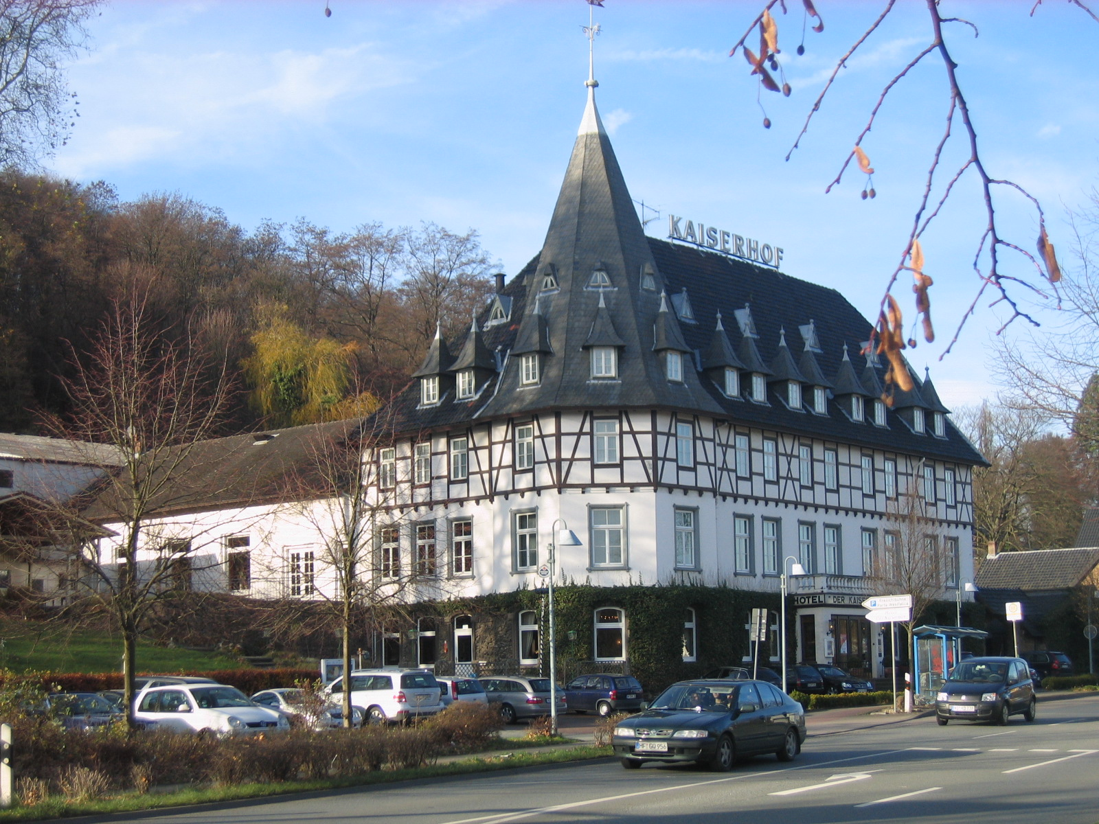 Hotel Kaiserhof at Porta Westfalica, District of Minden-Lübbecke, North Rhine-Westphalia, Germany